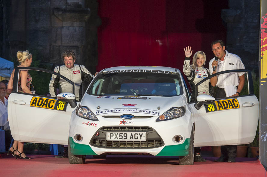 Rally Germany 2012 ADAC Rallye Deutschland,Ceremonial Start,Ford Fiesta R2,Louise Cook,Motorsport,Rally,Rallye,Rallye Deutschland,Stefan Davis,WRC Academy